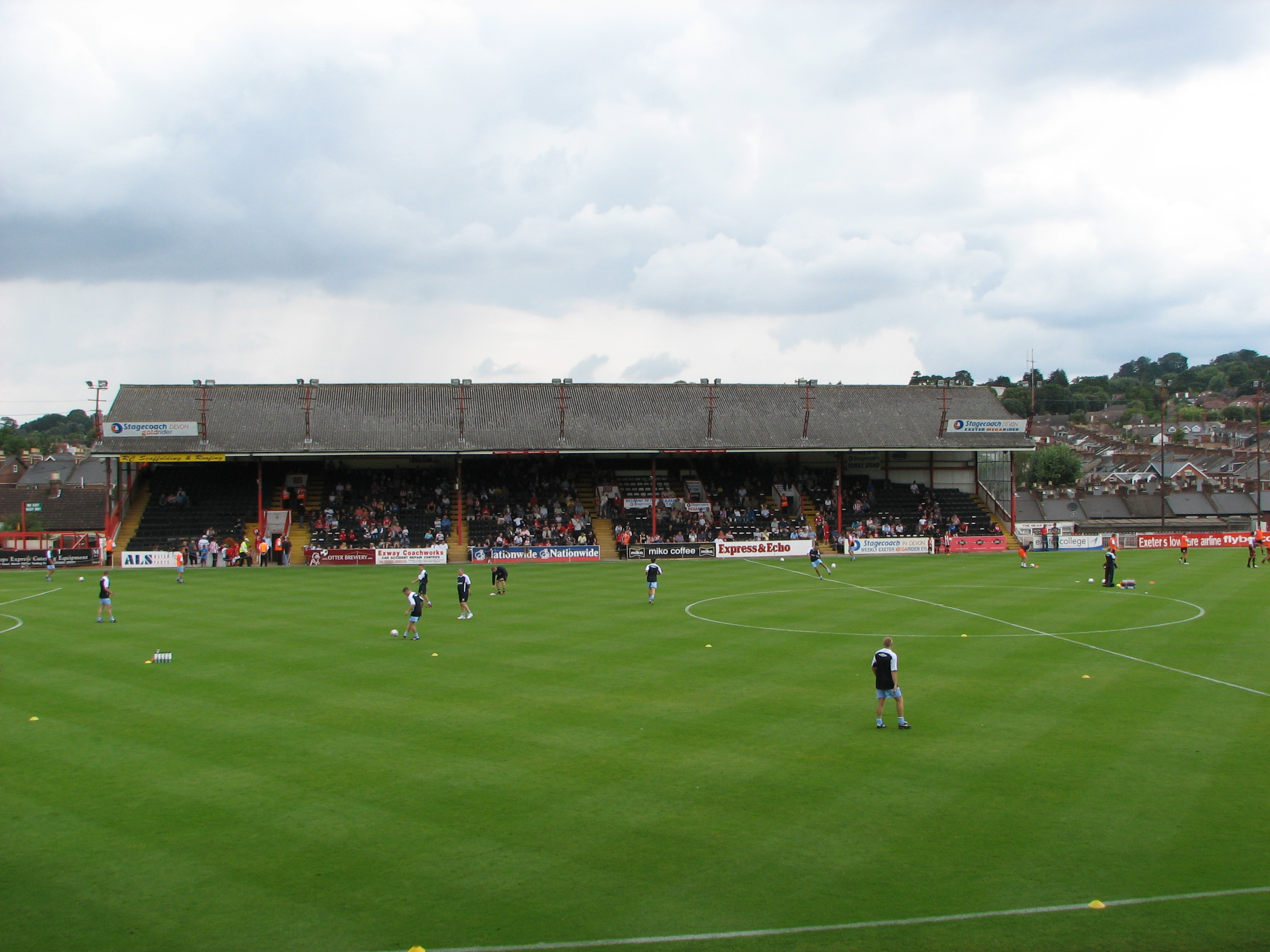 The Old Grandstand at St James Park, home of Exeter City Football Club Photo taken by User:Rowan Massey